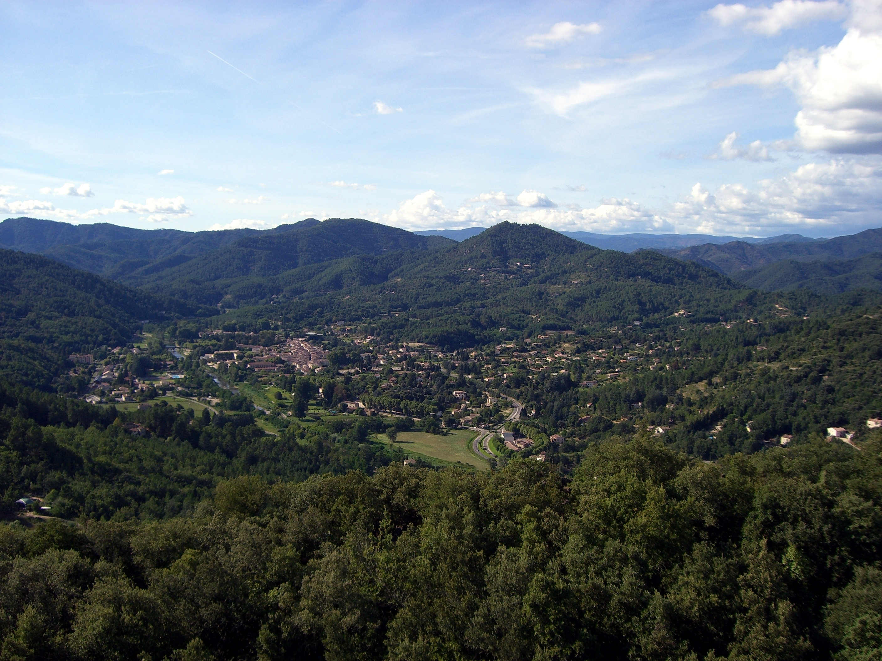 The city of Saint-Jean-du-Gard.